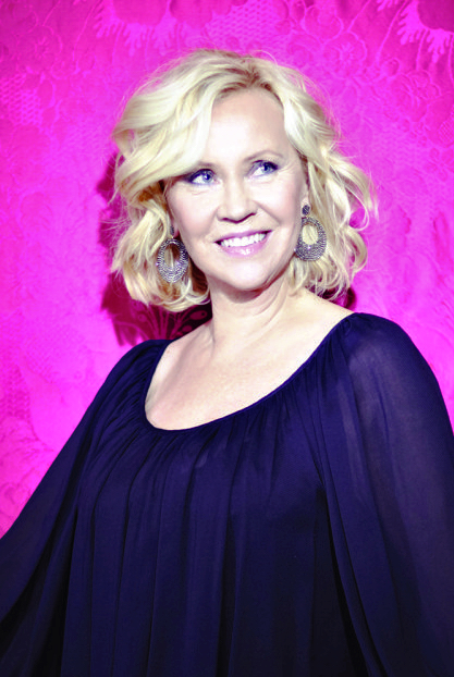 Press photo of Agnetha Fältskog in conjunction with Stockholm Pride 2013.